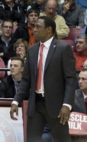 Avery Johnson coaching Alabama in a 2016 game against Arkansas.